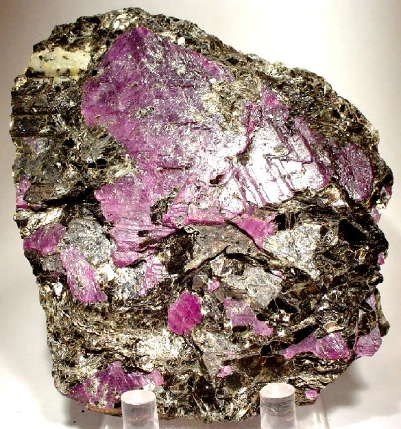 Corundum (Var.: Ruby), Corundum, Phlogopite Locality: Kleggåsen Ruby Quarry, Froland, Aust-Agder, Norway (Locality at ) A SHOWY and excellent CABINET plate of highly lustrous, striated ruby corundum crystals in lustrous, layered phlogopite from the well-known Kleggasen Ruby Quarry in Froland, Norway. Ex Dick Hauck Collection. RARE! 10.5 x 9.0 x 2.4 cm